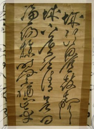 Letter of Yi San-hae